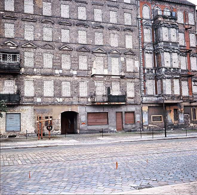 Berlin Wall: Bernauer Straße 48 with the Ida Siekmann memorial.